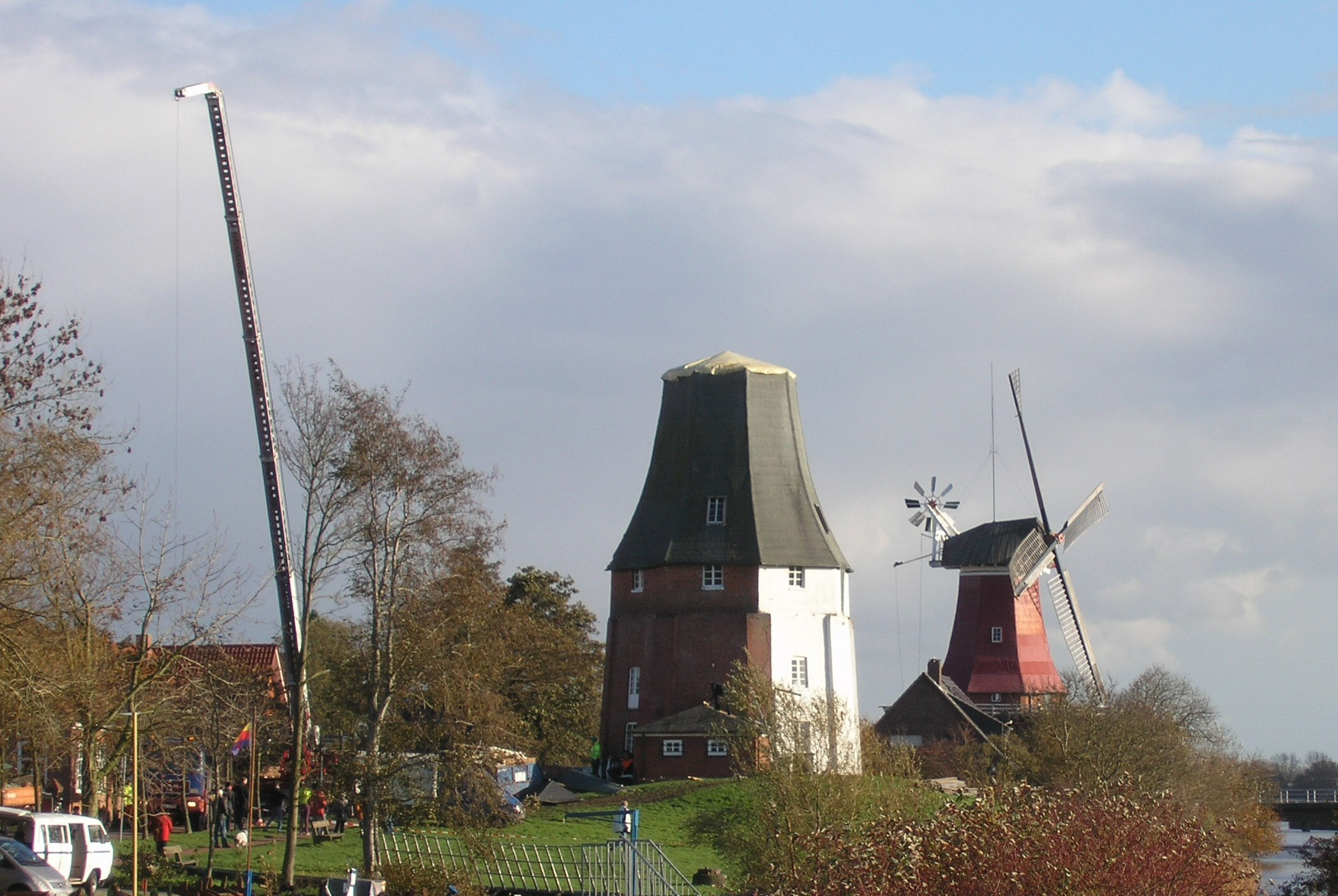 Greetsiel Green Mill, damaged on October, 28th 2013 by Cyclone Christian in Greetsiel, Krummhörn, Lower Saxony, Germany